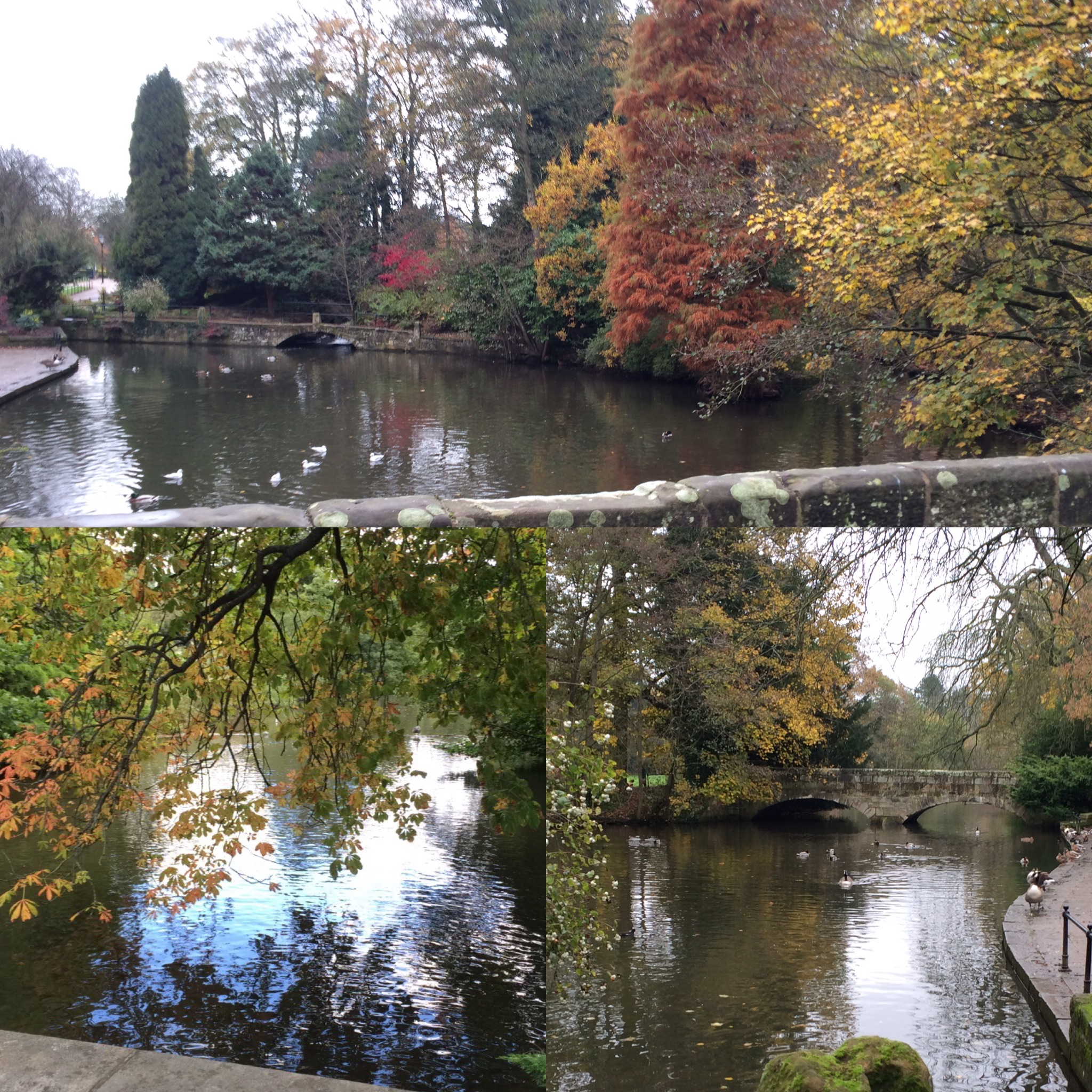 Markeaton Bridge and Markeaton Brook views.